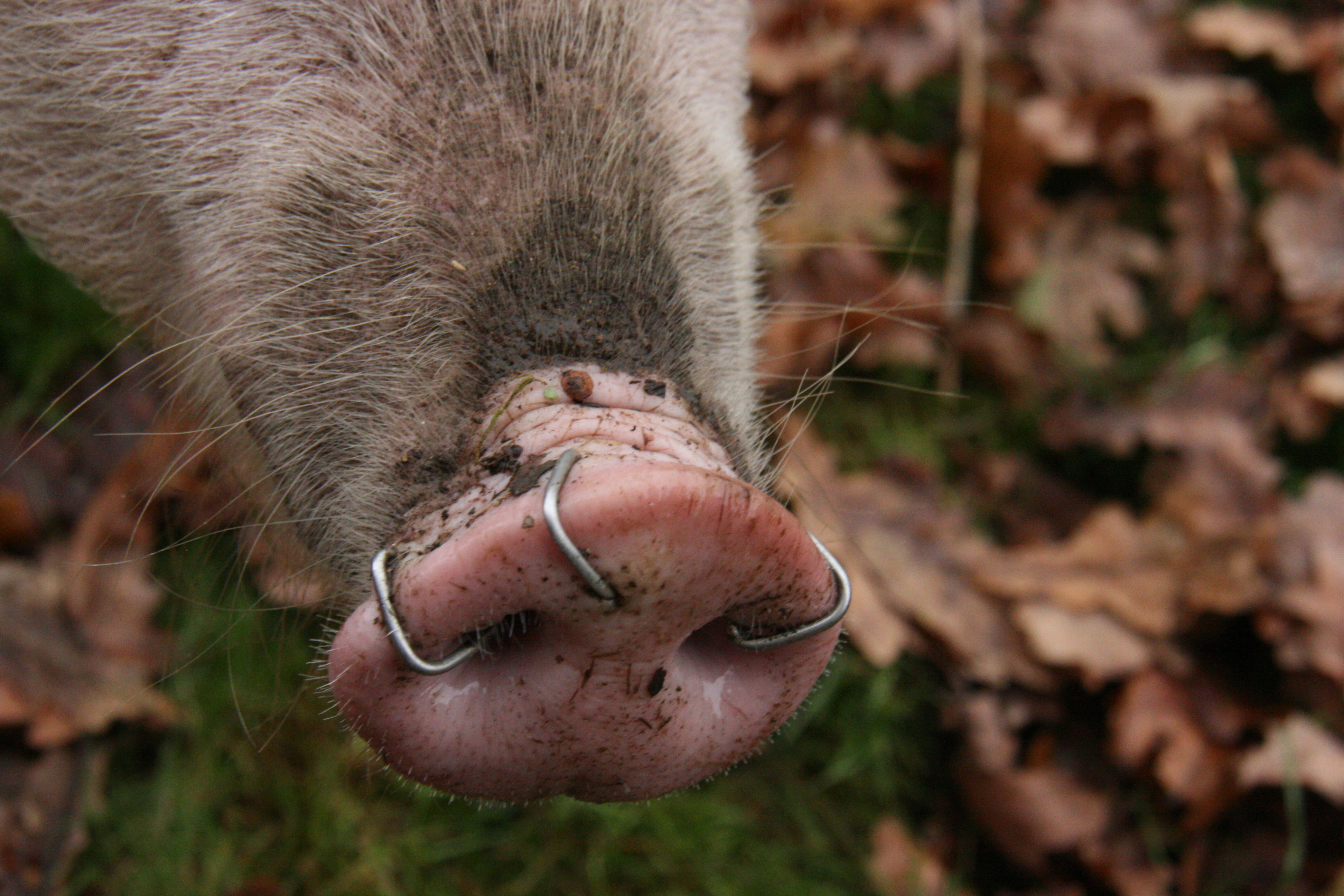 A young pig foraging on the New Forest in southern England. Pigs are allowed to roam free on the Forest in the autumn, as long as they have rings in their noses to prevent them rooting too much.